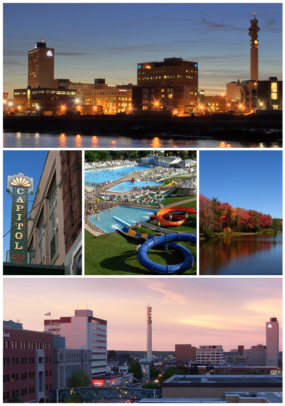 Montage of images of Moncton, New Brunswick